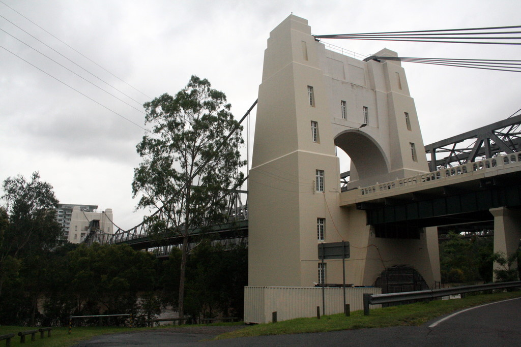 Photo taken by Paul Guard